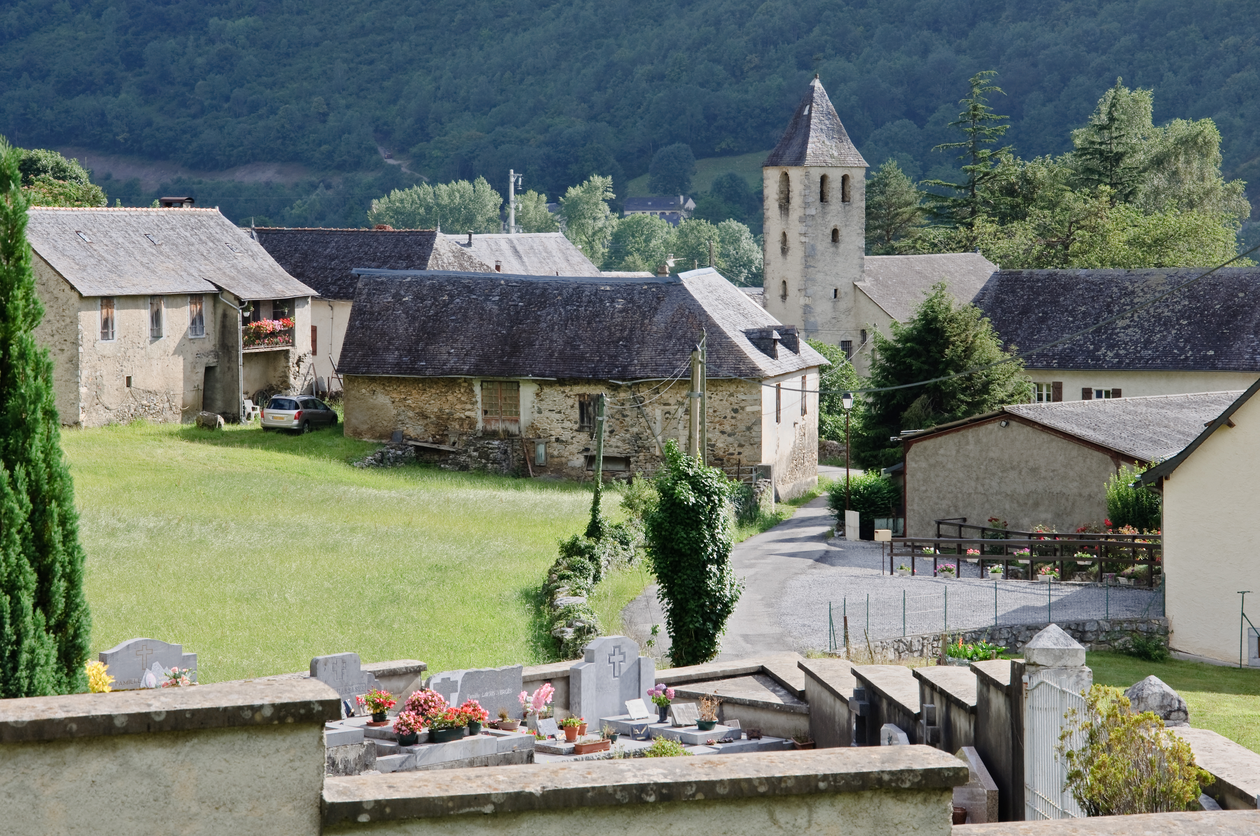 Bélesten, one of the two villages joined in the commune of Gère-Bélesten, in the Ossau Valley, Pyrénées-Atlantiques, France.